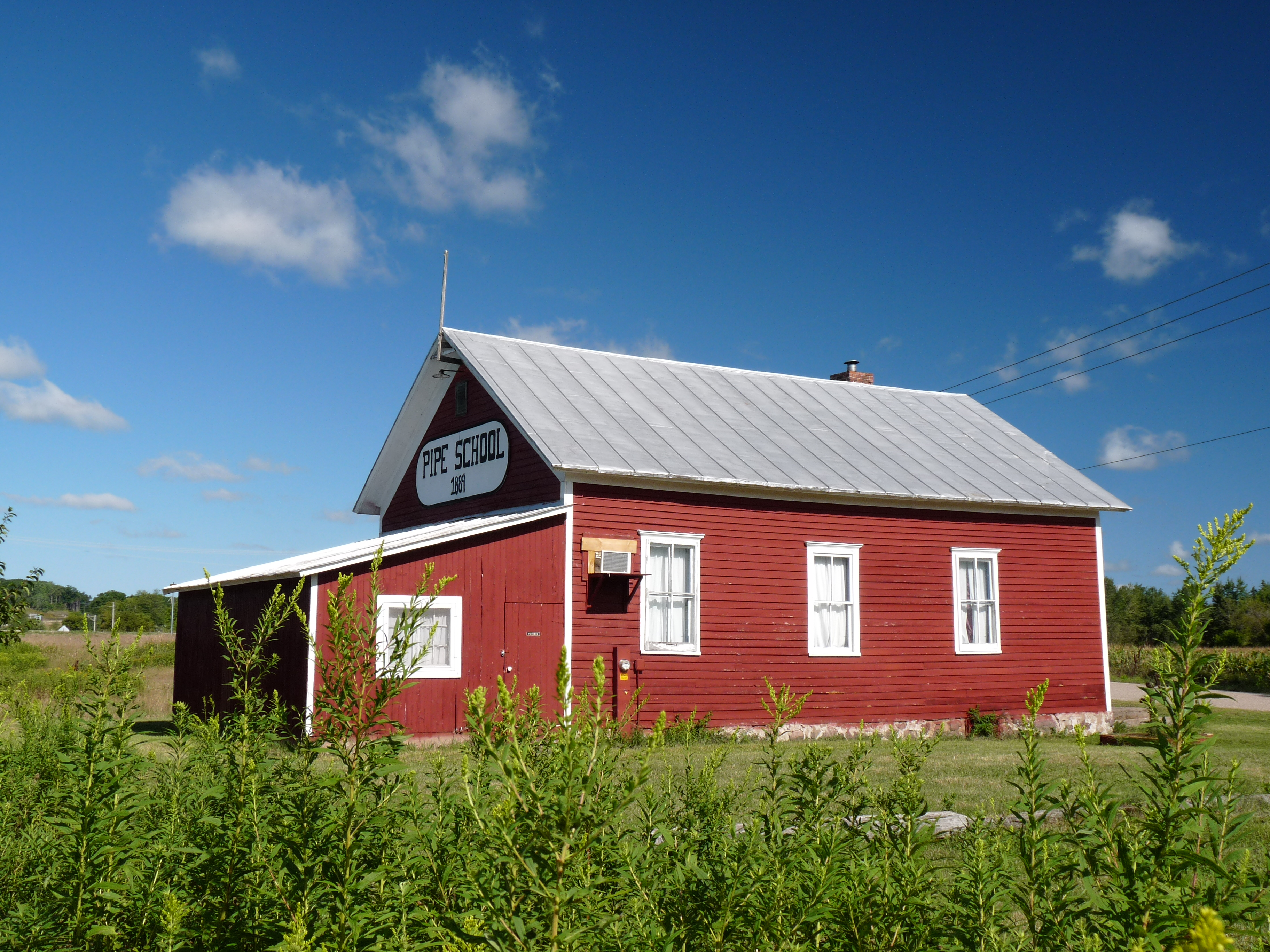 The Pipe school in the town of Lanark, Portage County, Wisconsin, is a one-room school built in 1889. Since 1993 it has been listed on the National Register of Historic Places.